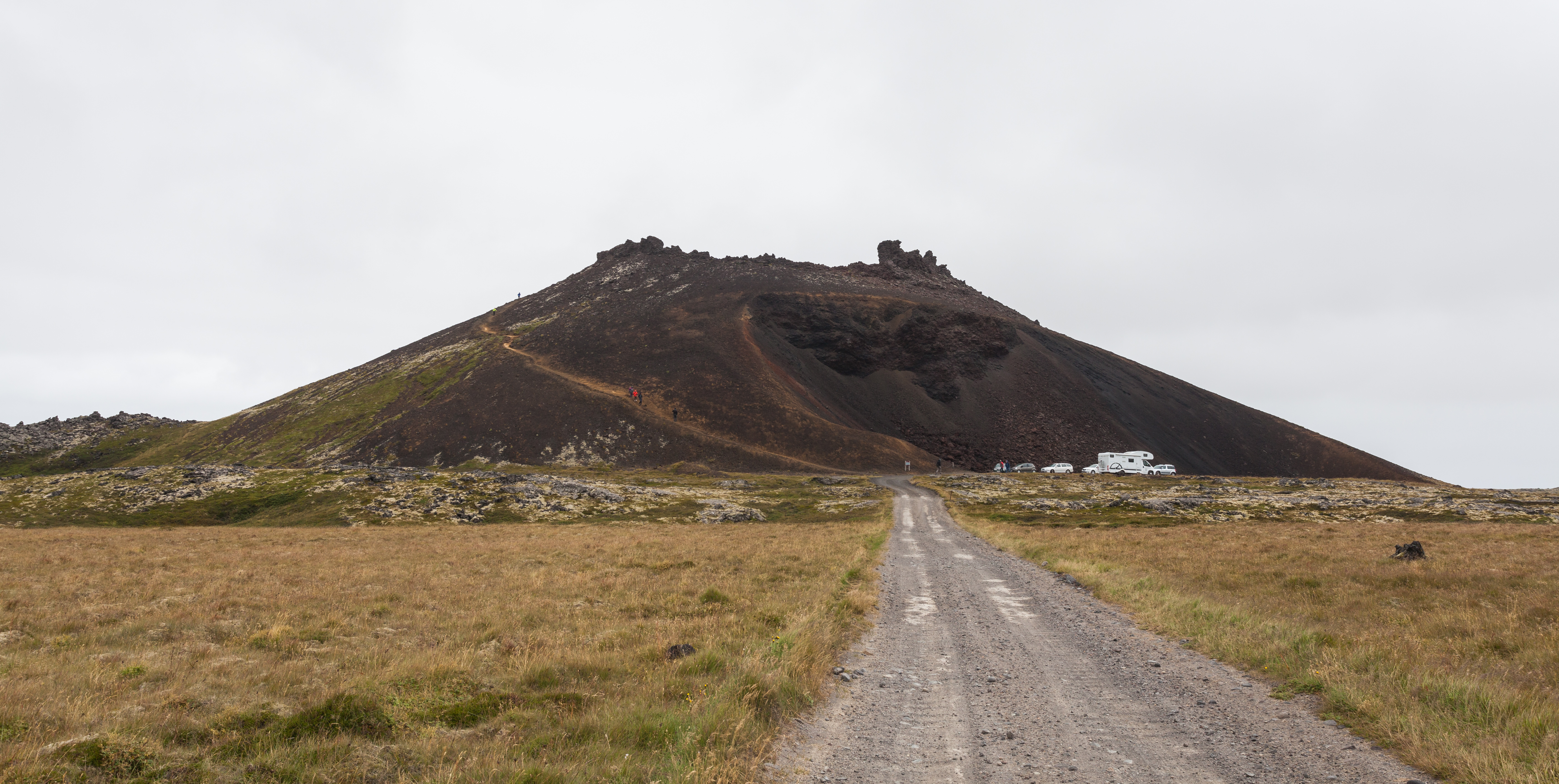 Saxhóll crater, Versurland, Iceland